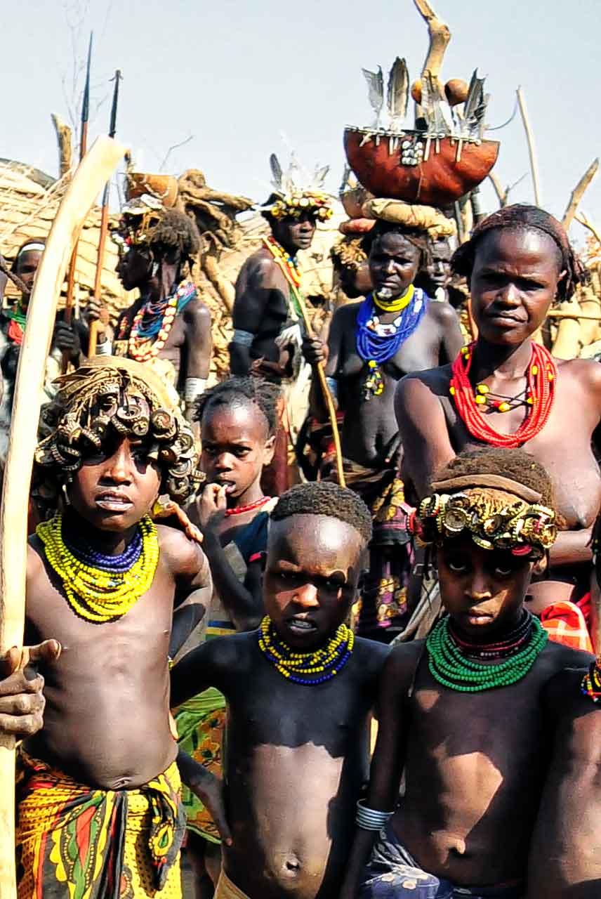 The Dassanech People